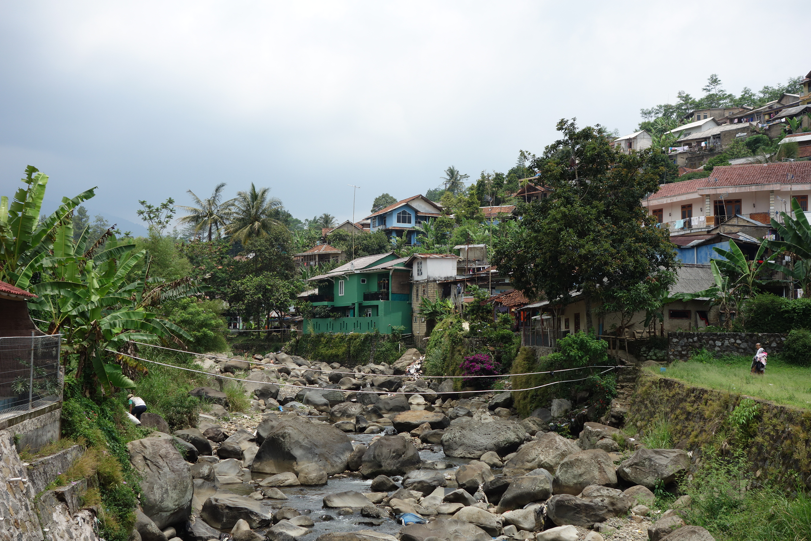 Ciliwung river just at its upstream (Puncak district, 50 km from Jakarta)